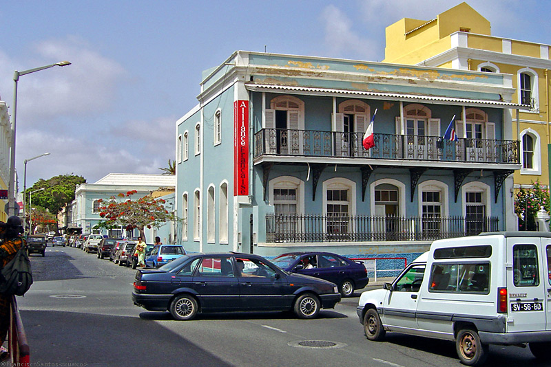 Building of the Alliance Française in Mindelo, Cape Verde. 2006.